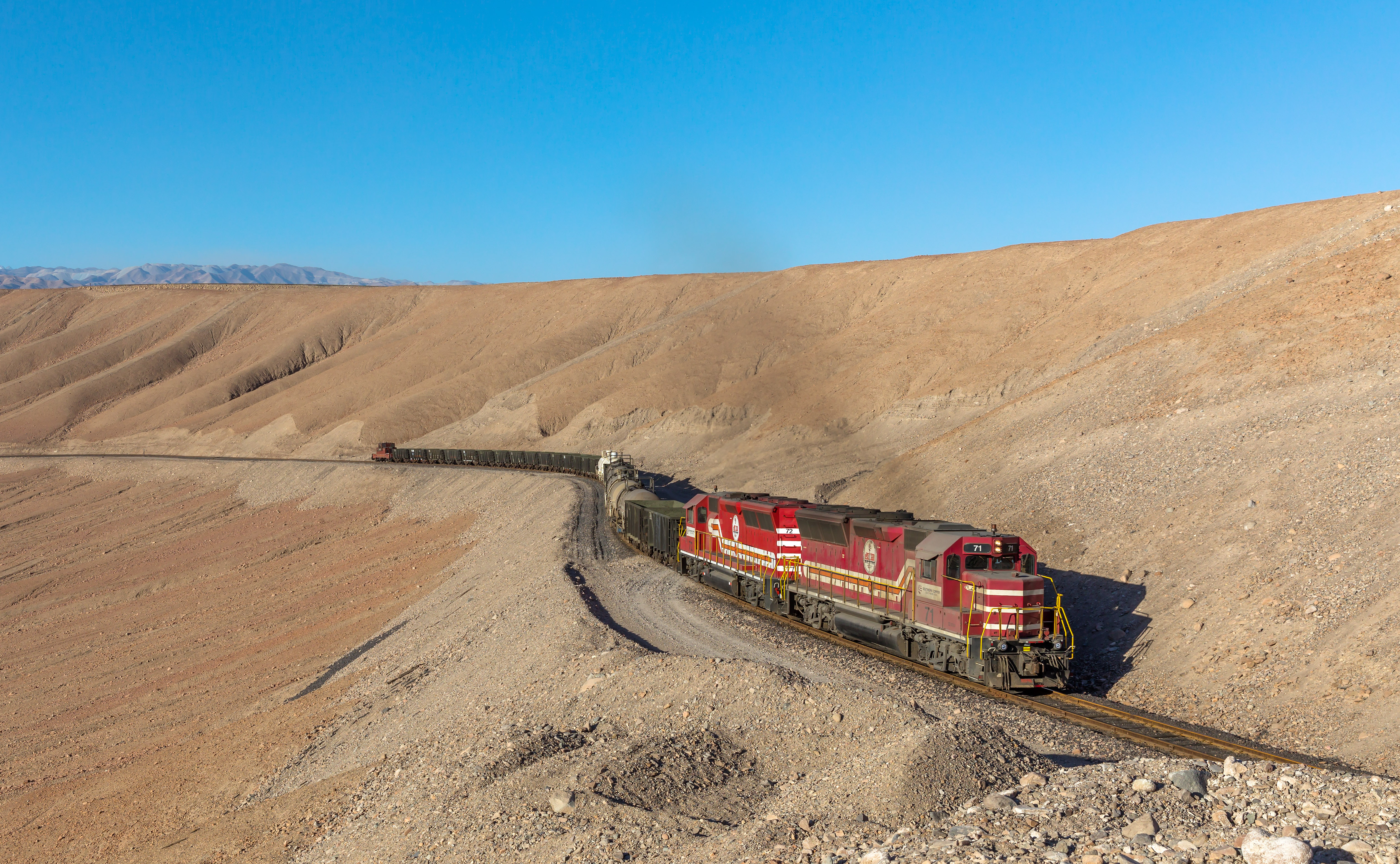 Southern Peru Copper Corporation's GP31ECO (Progress Rail rebuilds of EMD SD40s) nr. 71 and 72 haul a mine supply train between Ilo and Toquepala, Peru.